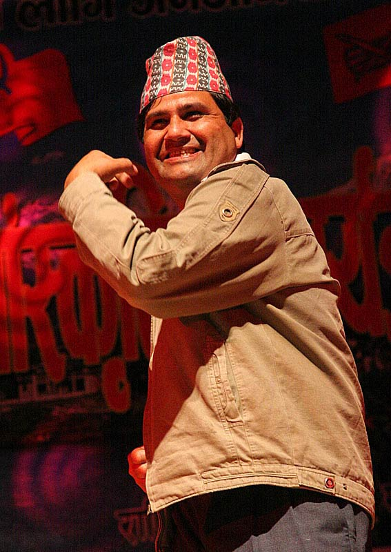 Manoj gajurel is standup comedians of Nepal. He is famous for variation in social comedy.